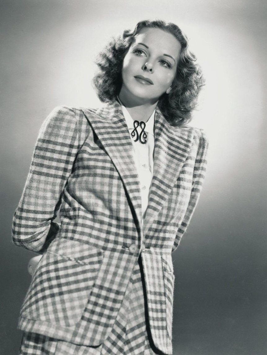 Jane Randolph, actress, circa 1940s.